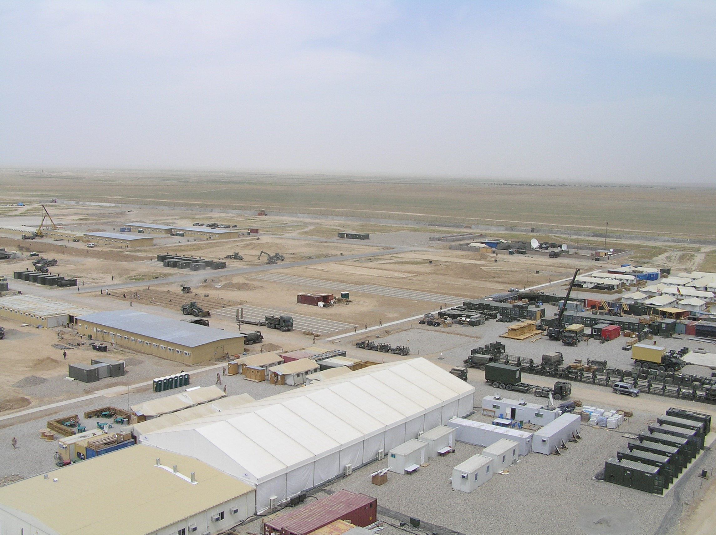 Overview Camp Marmal